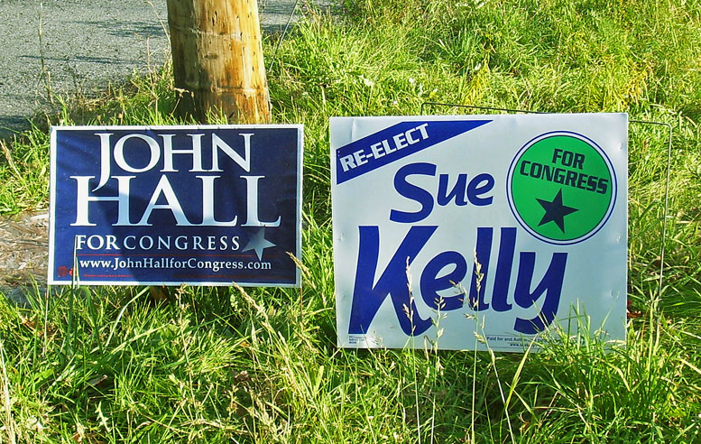 Photographed by Daniel Case at NY 207 and Jackson Road in New Windsor 2006-11-02